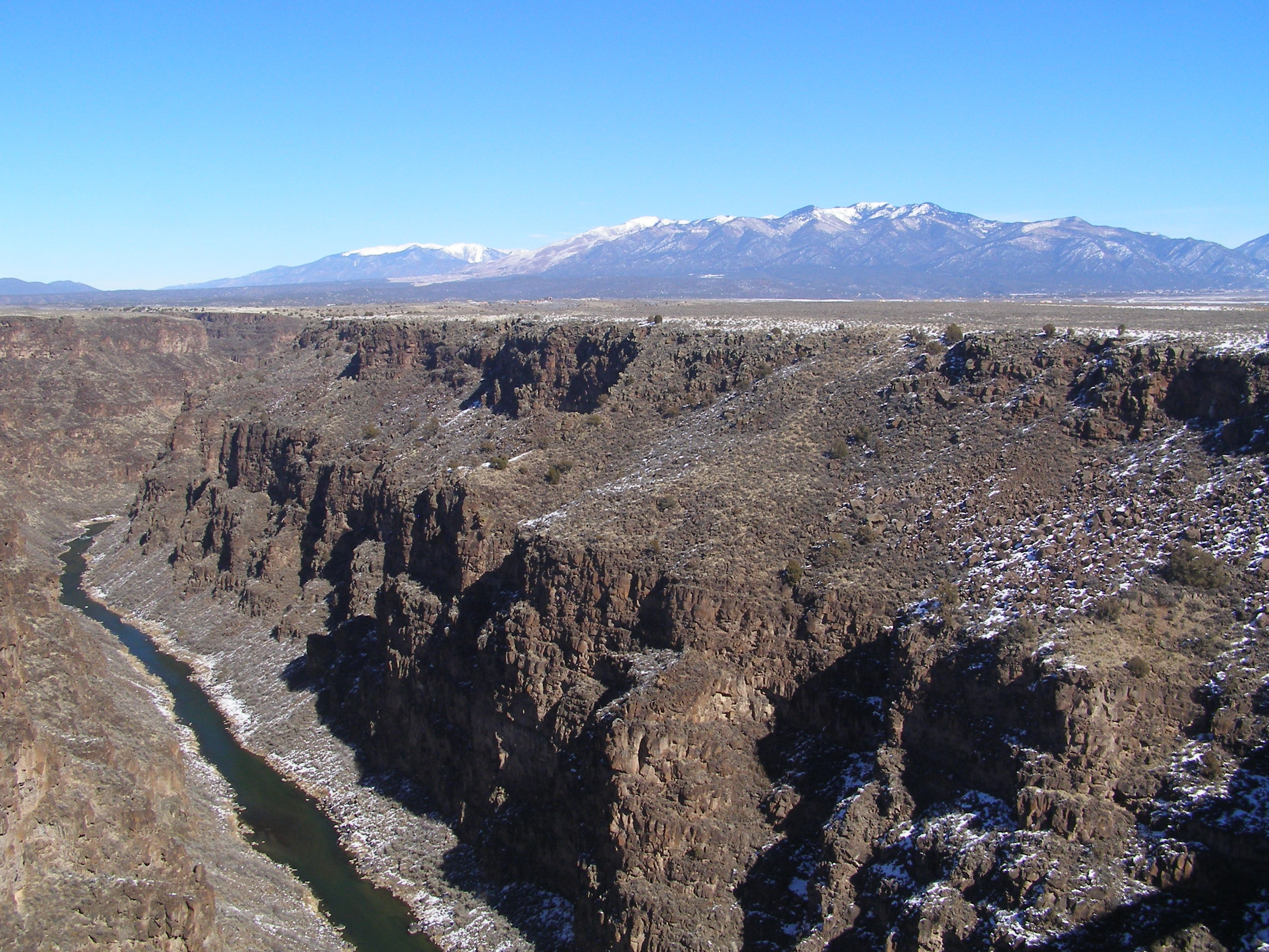 Taken from the west side of the Rio Grande Gorge, along US-64 (circa mileposts 242-243).